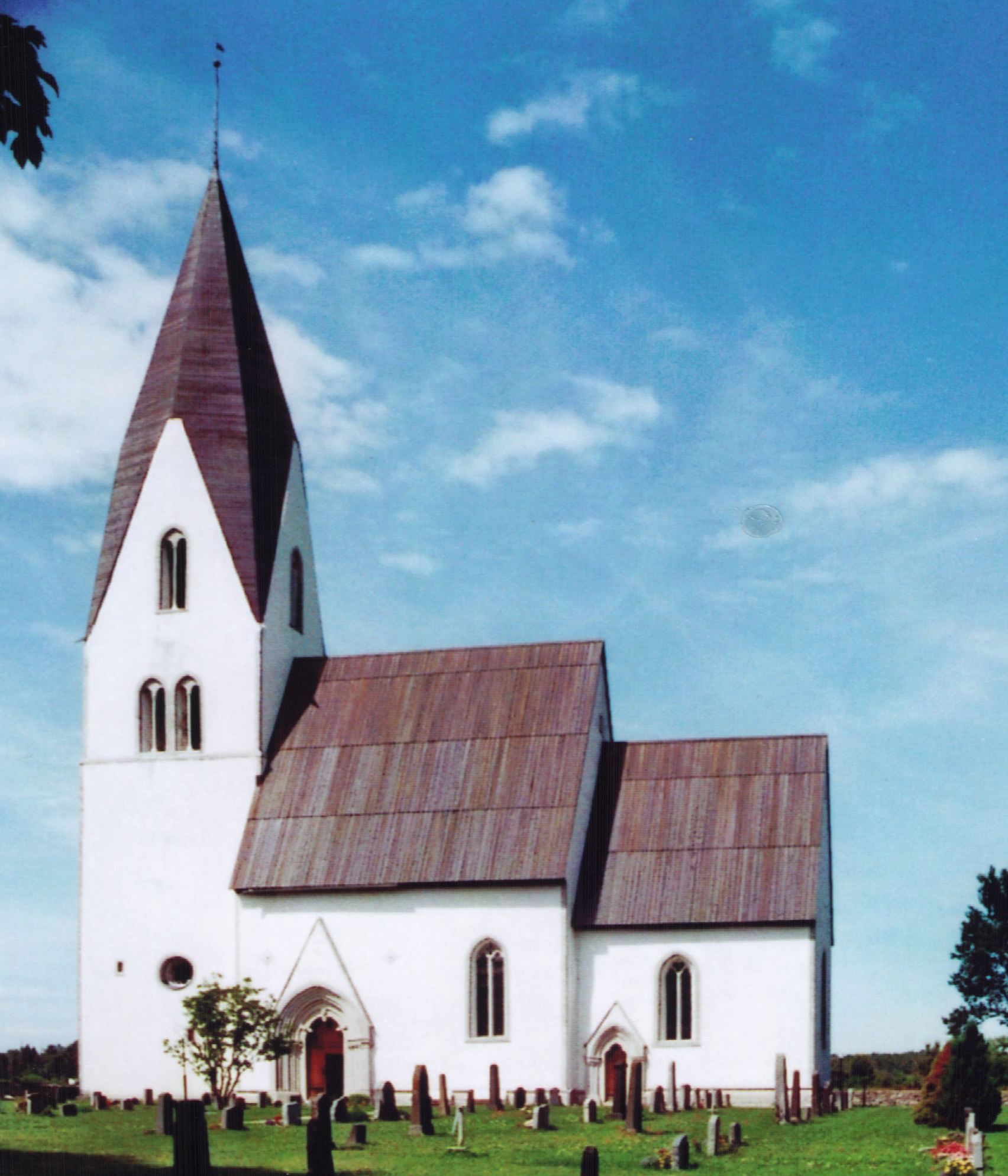 Church of Tofta, Gotland, Sweden